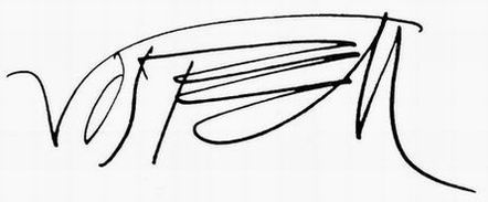 I took the foto from a drawing at an exposicion. I am the owner of the copyright.